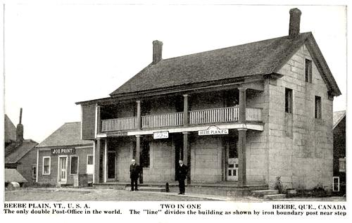 Photograph of the old Beebe Plain post office, which housed a United States post office on one side and a Canadian post office on the other side, with the international border running down the middle.